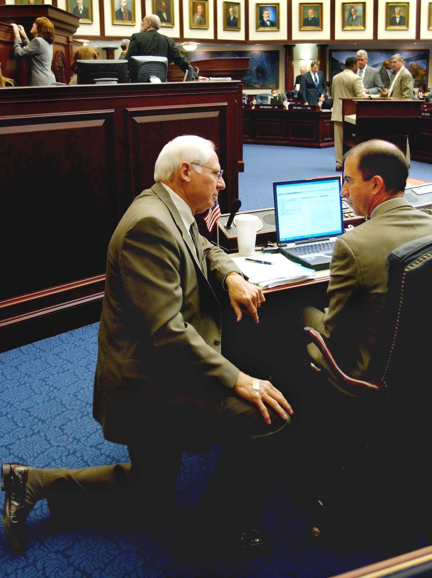 Rep. Ralph Poppell, R-Titusville, left, and Rep. Carey Baker, R-Eustis, right, confer on the House floor March 9, 2004.